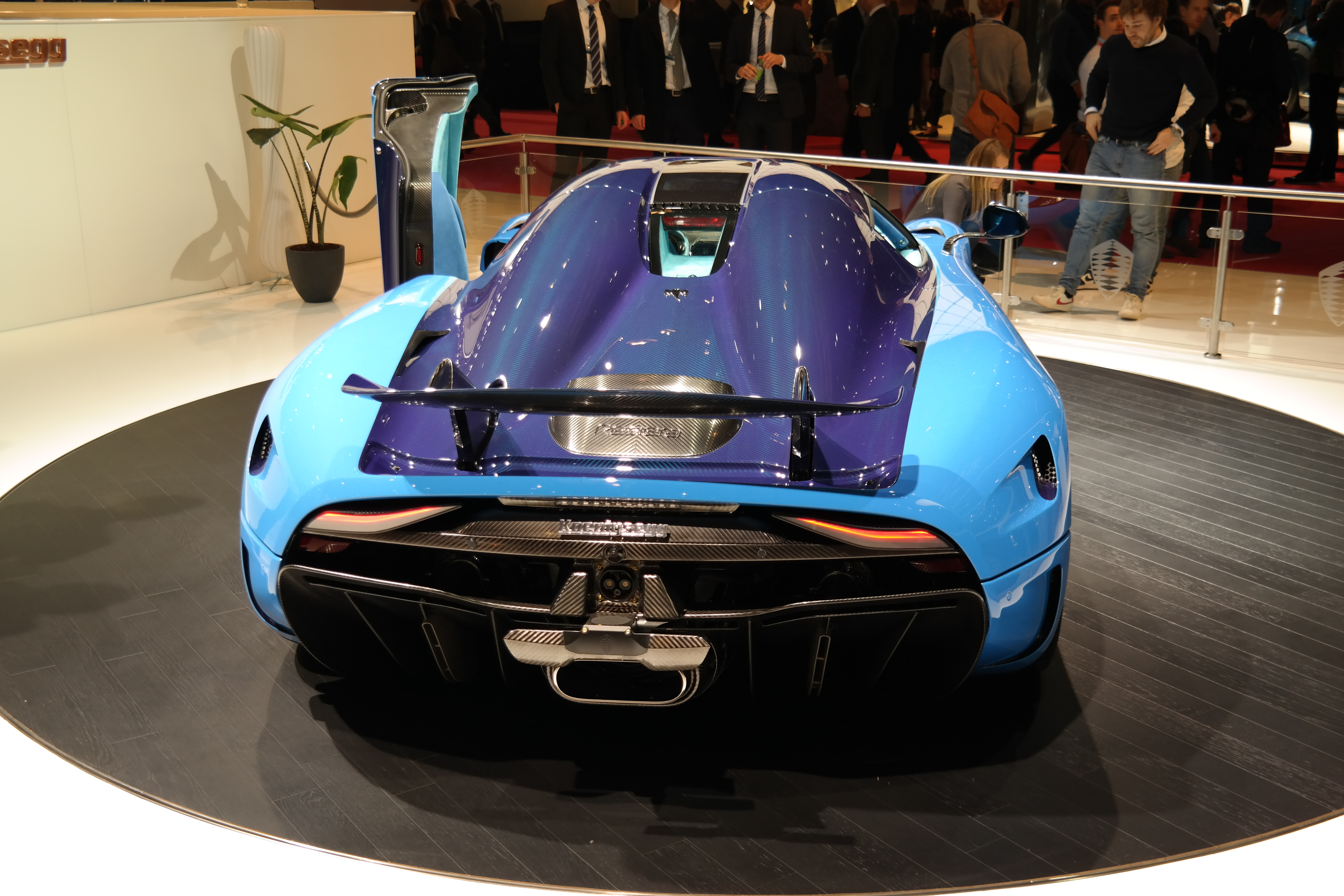 Geneva Motor Show 2018 (photo taken on the first press day)